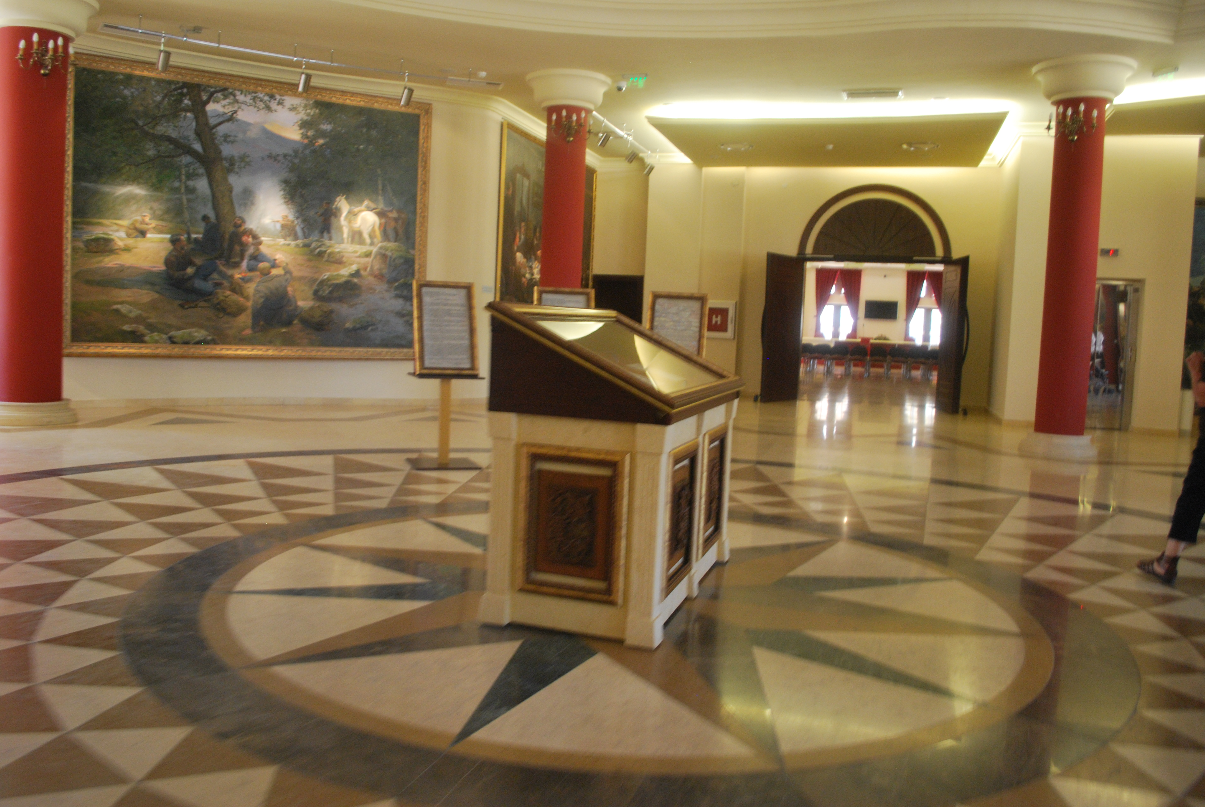 Museum of the Macedonian Struggle for sovereignity and independence - " Museum of VMRO and Museum of victims of communist regime" in Skopje, Macedonia.